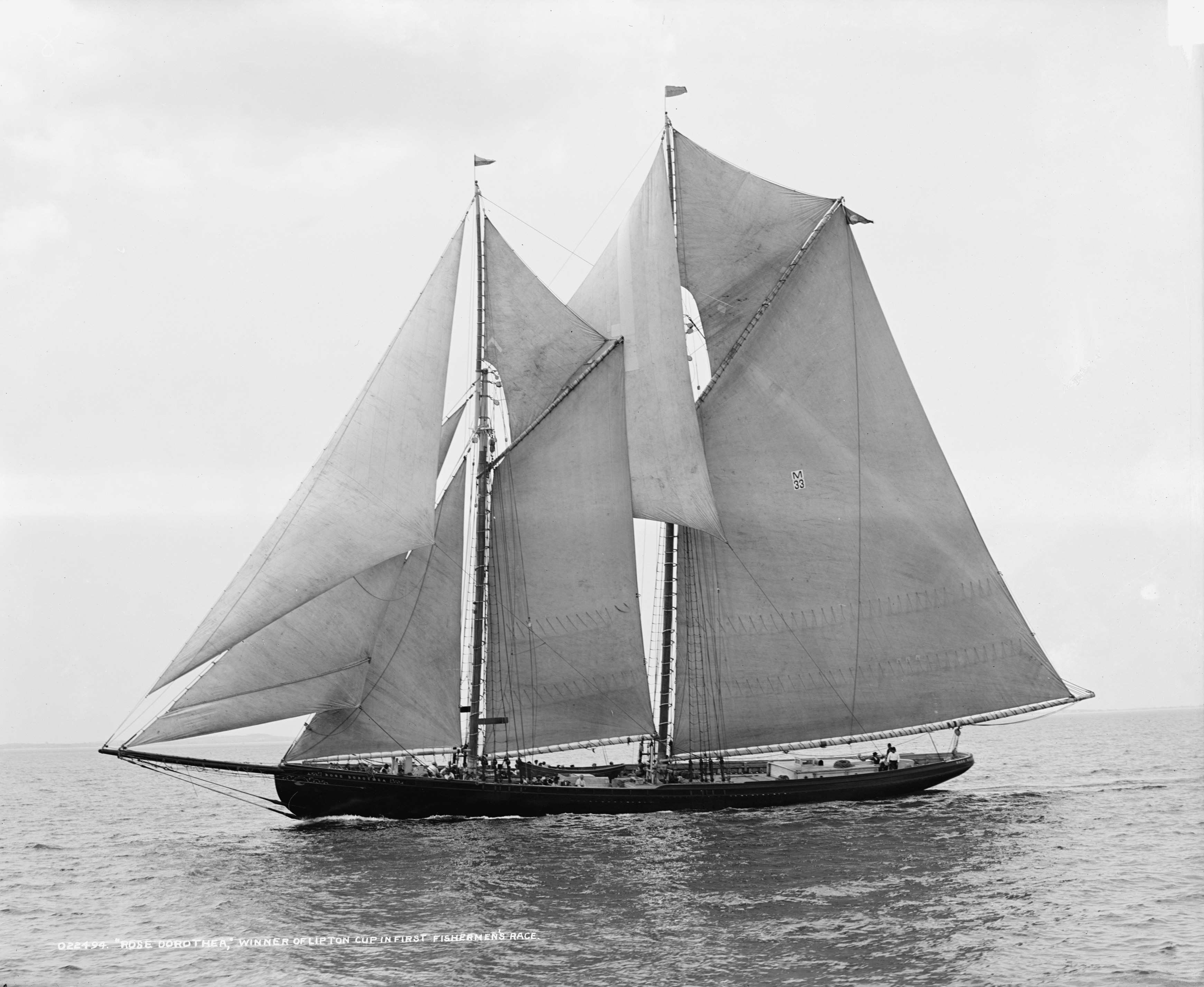 The Rose Dorothea was one of the famous "Indian Head" schooners designed by Thomas McManus and built at the Tarr & James Shipyard in Essex, MA in 1905. She was 108.7 feet (33.1 m) long, weighed 108 tons, with a gross register tonnage of 147 tons, and a crew of 26 men. As a part of Boston's "Old Home Week" celebration in August 1907, a cup was offered by Sir Thomas Lipton for a Fishermen’s Race in Massachusetts Bay from Provincetown to Gloucester to Boston. Despite losing her foretopmast in the final leg of the race, the Rose Dorothea, with her crew from Provincetown, won the race by 2 1/2 minutes, beating the schooner Jesse Costa. She was was sold in 1916 to a Newfoundland company (W. Campbell & J. J. McKay, St. John’s, Newfoundland), which used her to ferry salt, codfish and other supplies to Portugal. On 16 February 1917, the German U-Boat submarine SM U-21 surfaced next to the schooner as it approached Portugal, approximately 15 nautical miles (28 km) off Cabo de Santa María (36°50′N 8°25′W / 36.833°N 8.417°W). After allowing her crew to evacuate into lifeboats, the U-Boat sank her.[1][2] Library of Congress Call Number: LC-D4-22494 [P&P]Detroit Publishing Company Photograph CollectionNotes:Possibly by Nathaniel Livermore Stebbins."4255" on negative.Detroit Publishing Co. no. 022494.Gift; State Historical Society of Colorado; 1949.